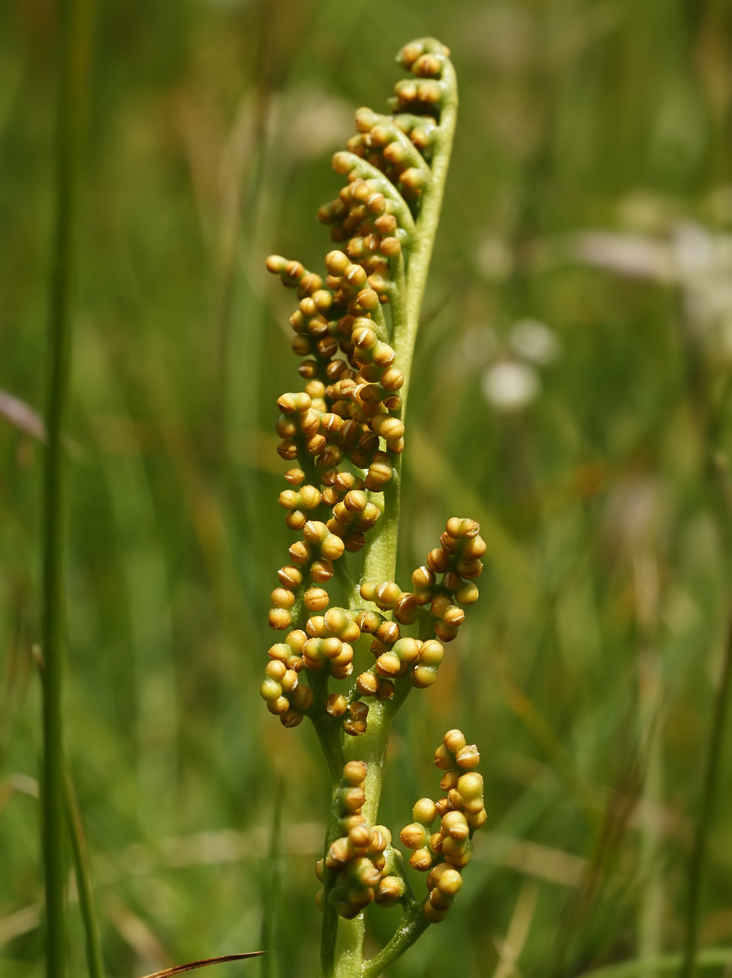 Sporangia of Common Moonwort near to Saas Fee, Switzerland